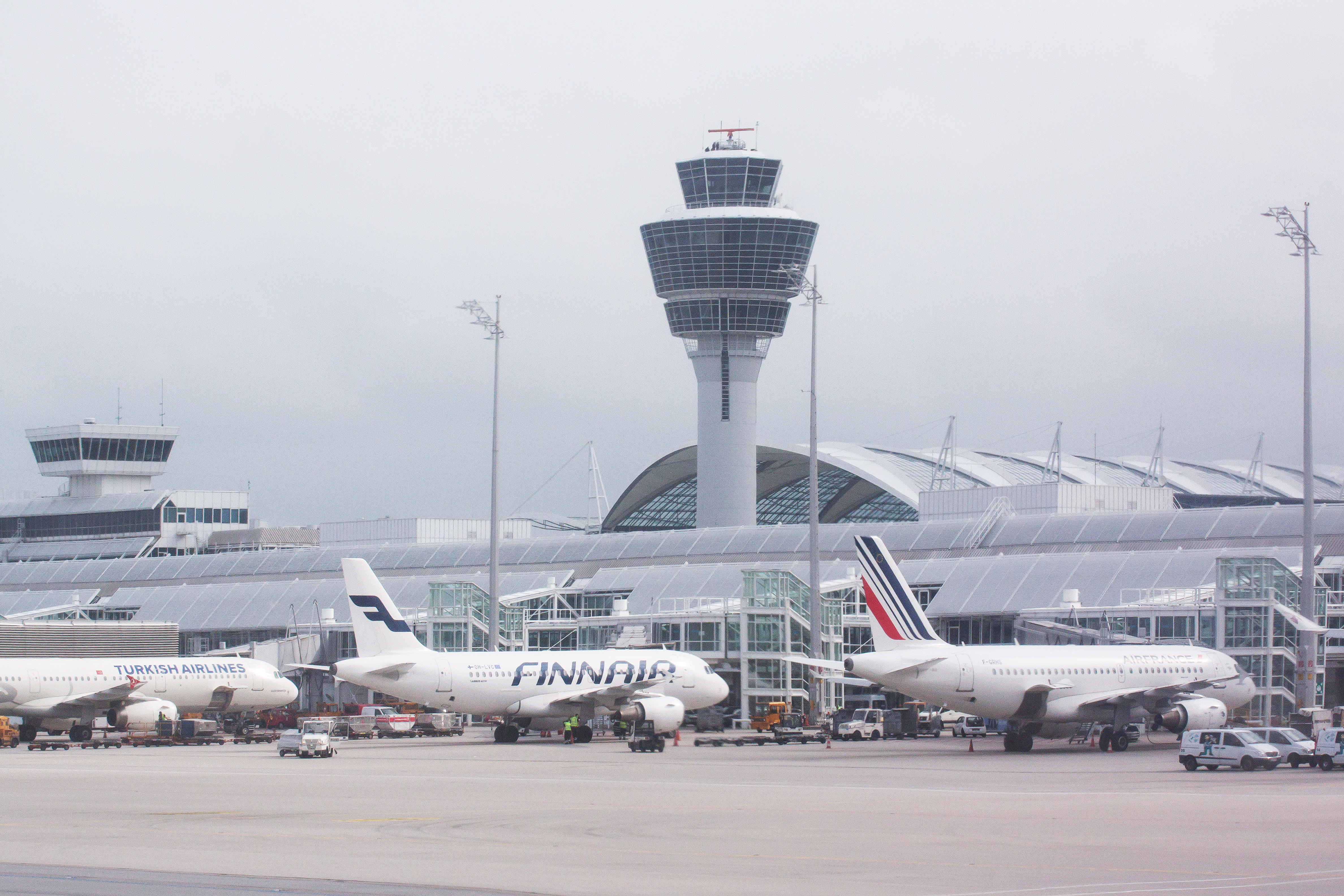 Control tower in Munich airport